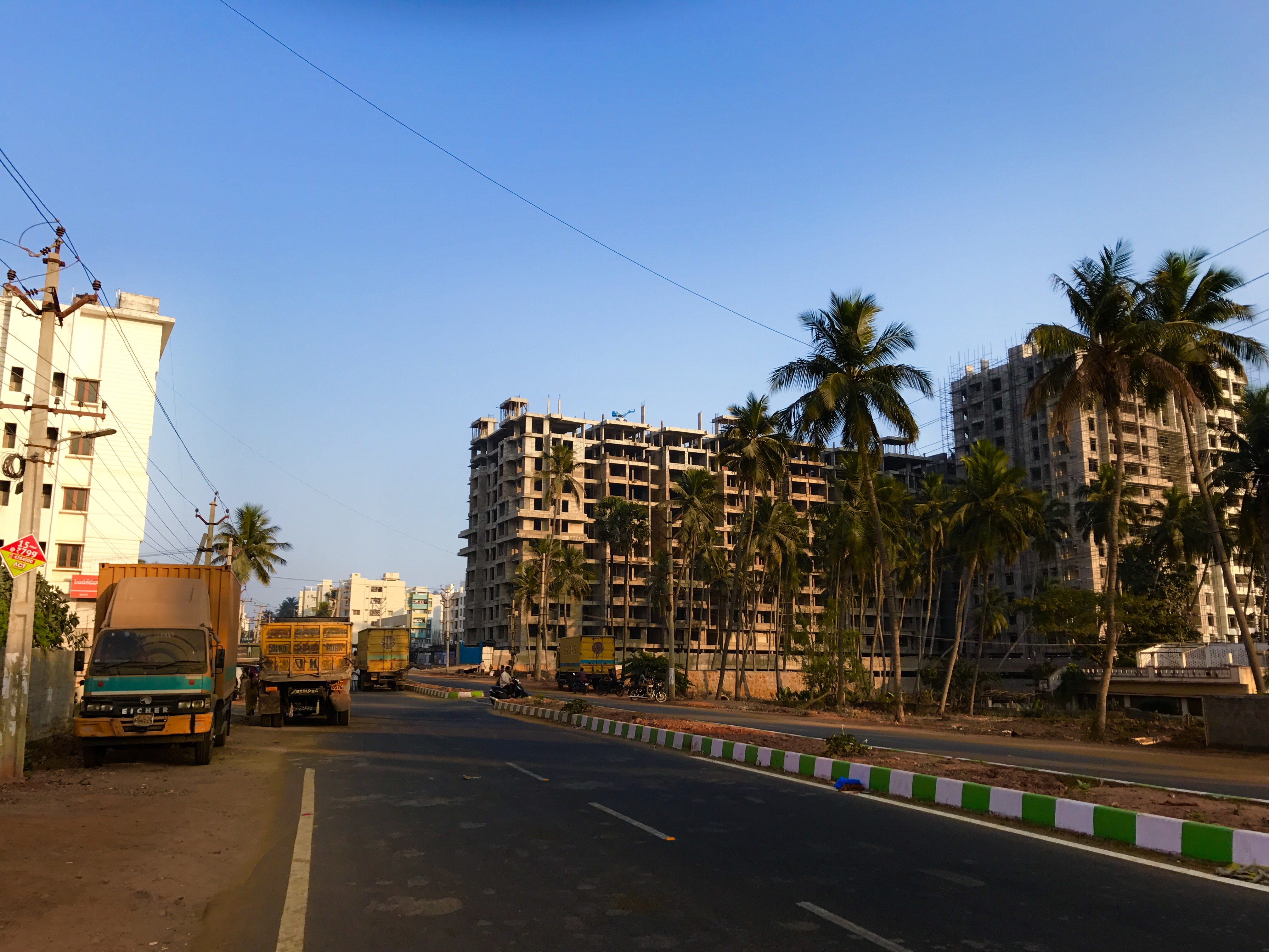 Yendada town main road